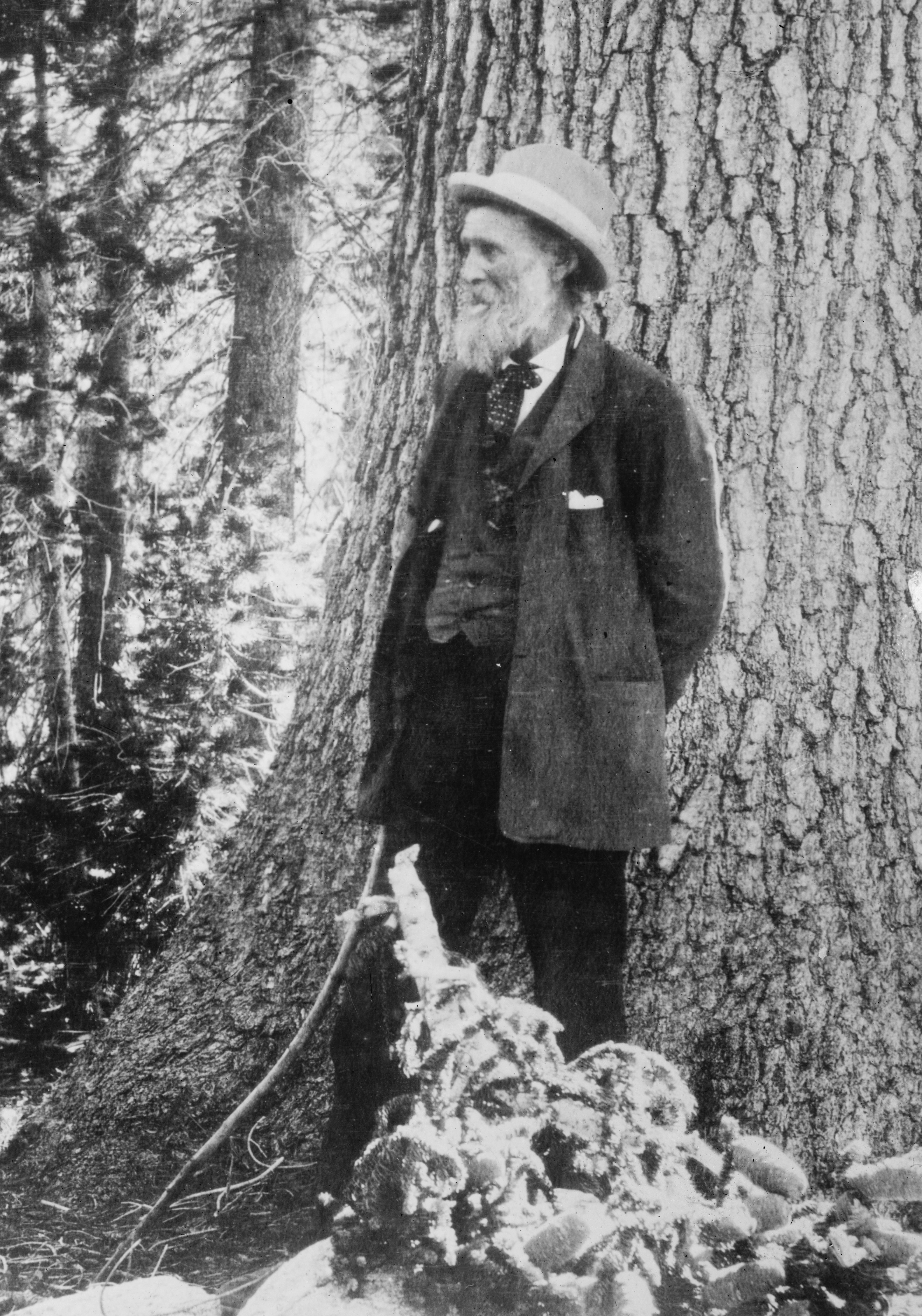 American conservationist John Muir (1838-1914)